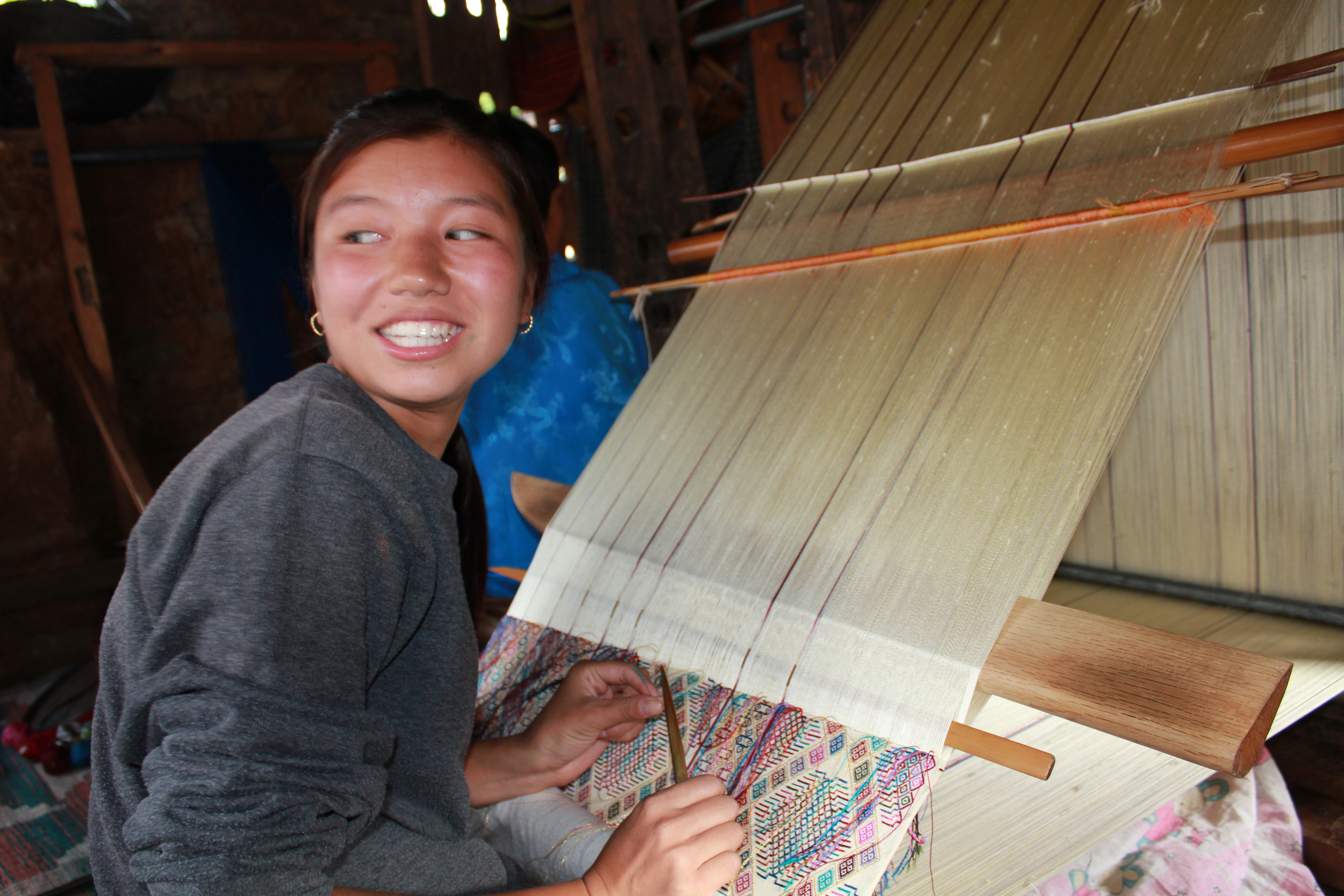 Khoma, weaver The Khoma village is known throughout the country for its production of Kishuthara, an extremely intricately patterned silk textile. The women of Khoma work in makeshift textile cottages, weaving delicate designs and patterns. Producing and selling Kishuthara has become the primary occupation of many of the villagers. The unique weaving activities involve embroidery, basket-making and Kishuthara. ( Bhutan